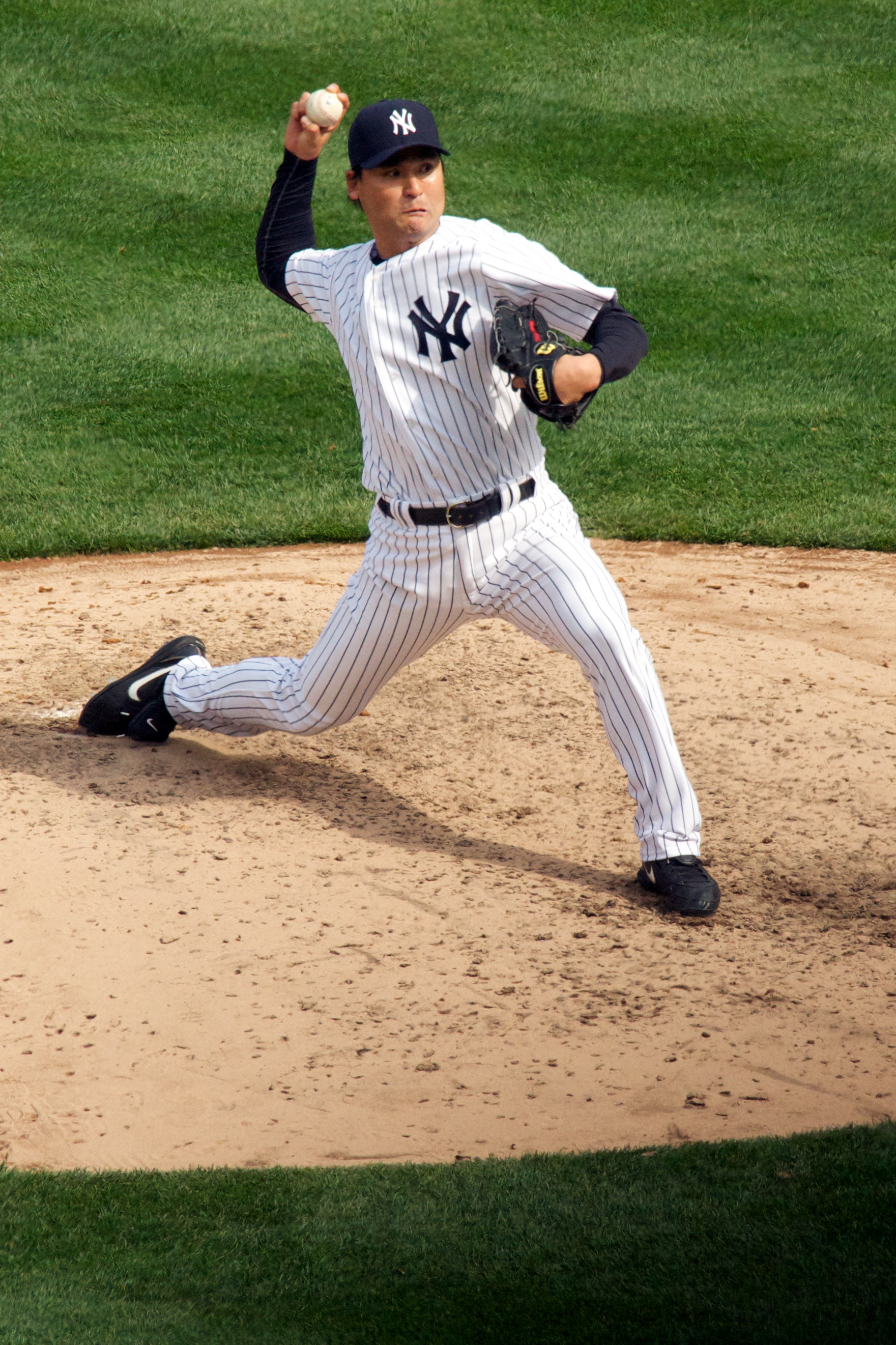 Picture of Chan Ho Park pitching on April 13, 2010 against Angels at home.